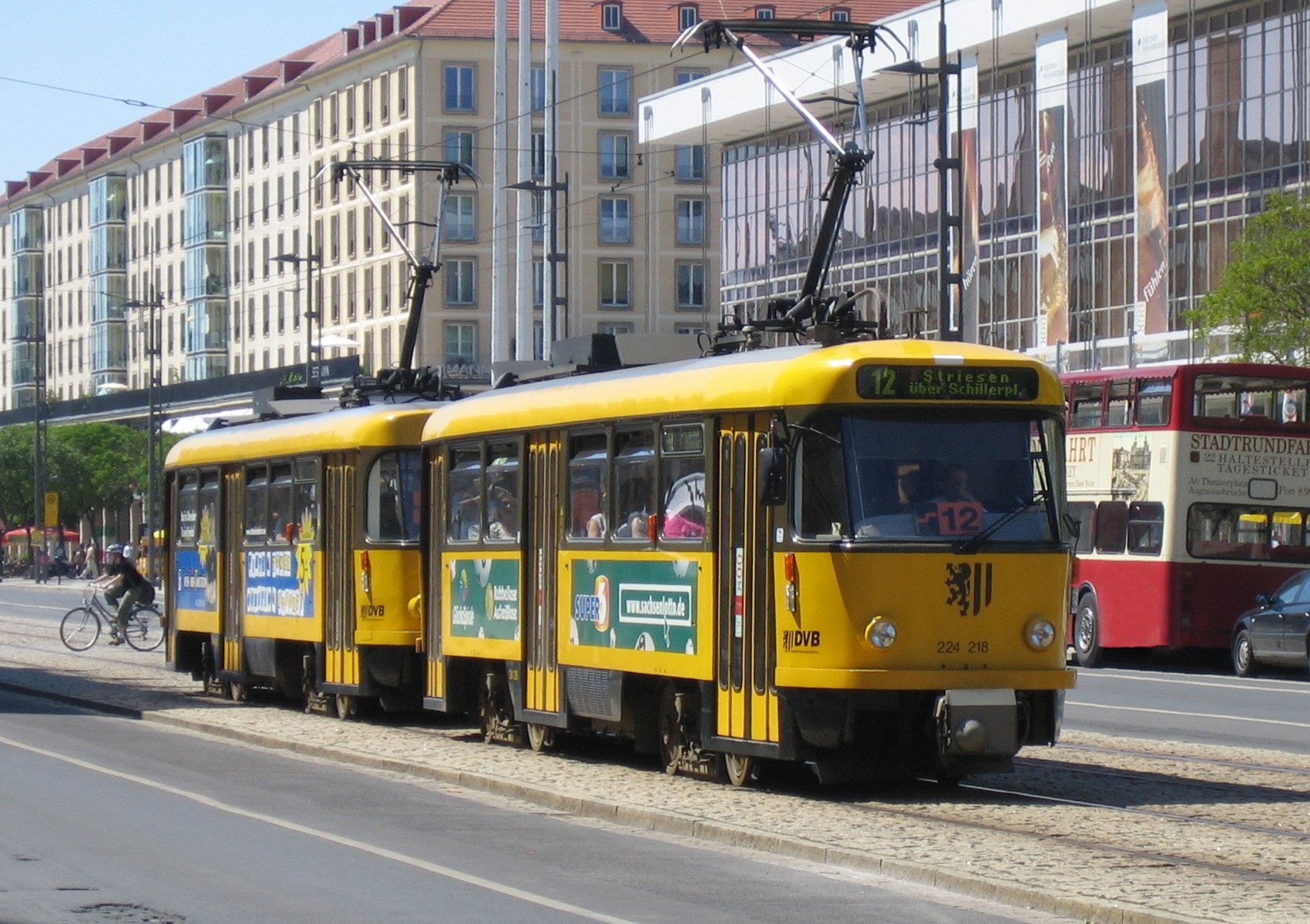 Tatra T4D tram of the Dresden Public Transport (T4D-MT + TB4D) Line 12 to Dresden-Striesen, near the stop Altmarkt